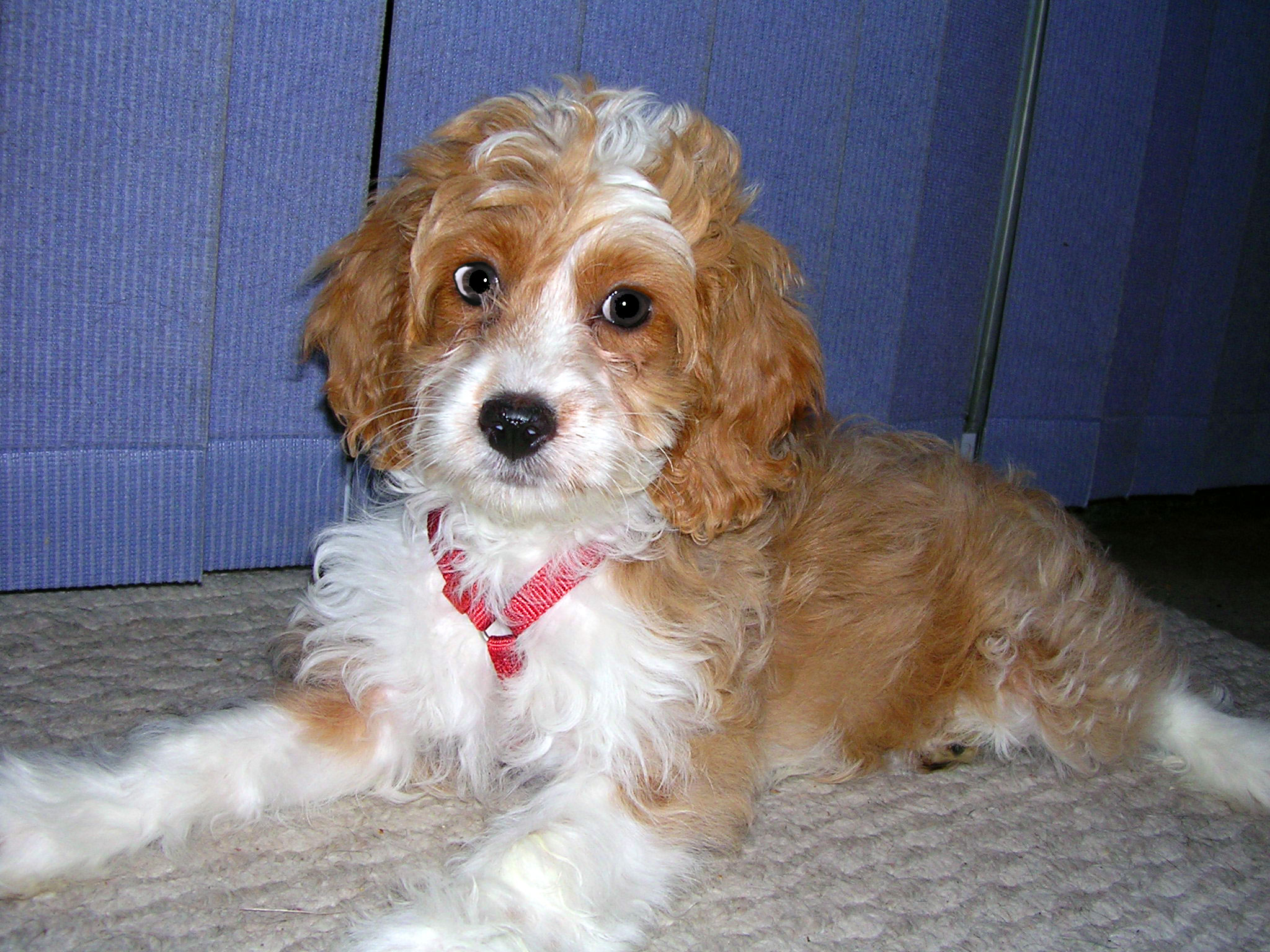 Cockapoo at 12 weeks old